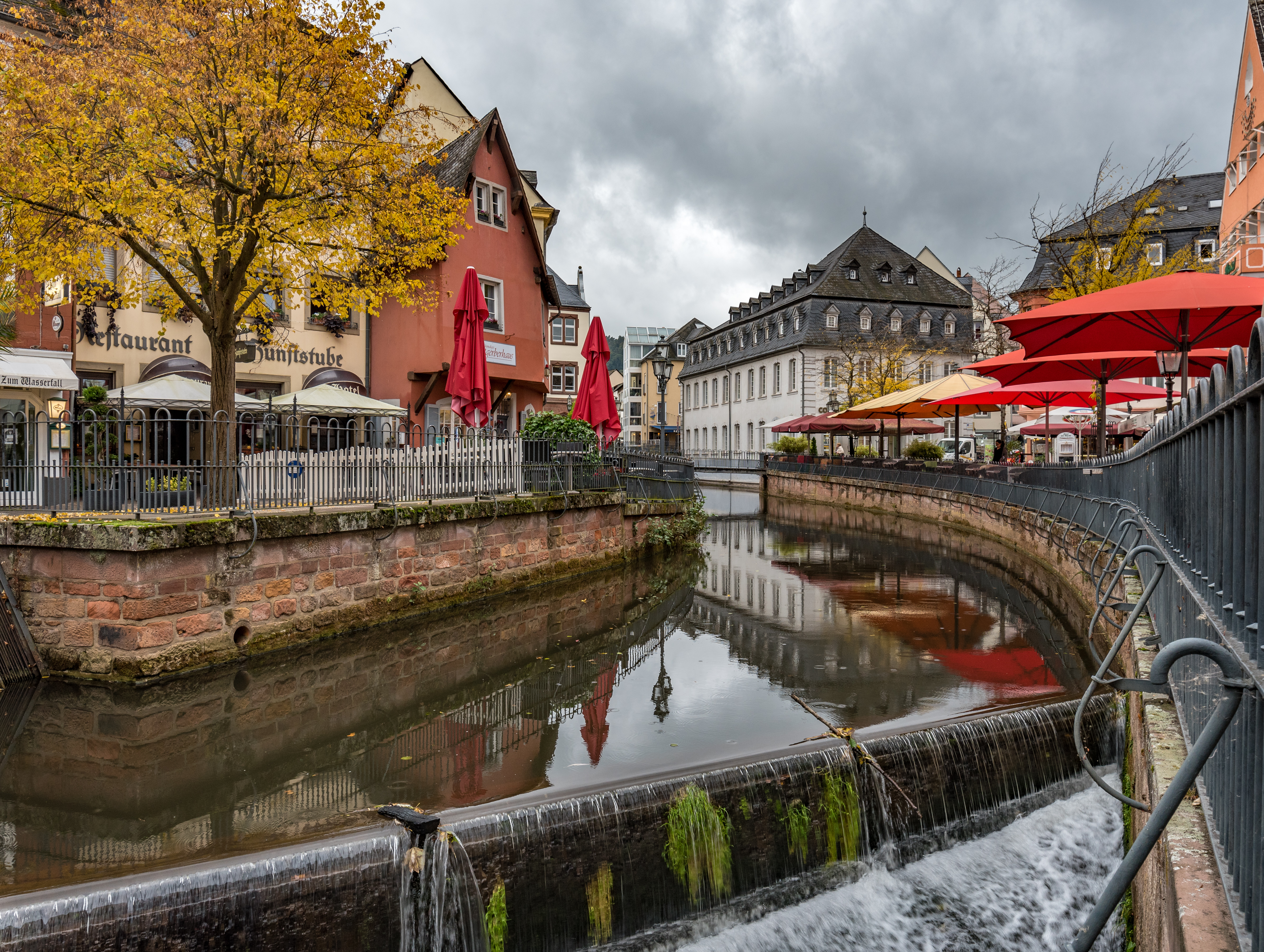 Town view of Saarburg with water fall at Leukbach